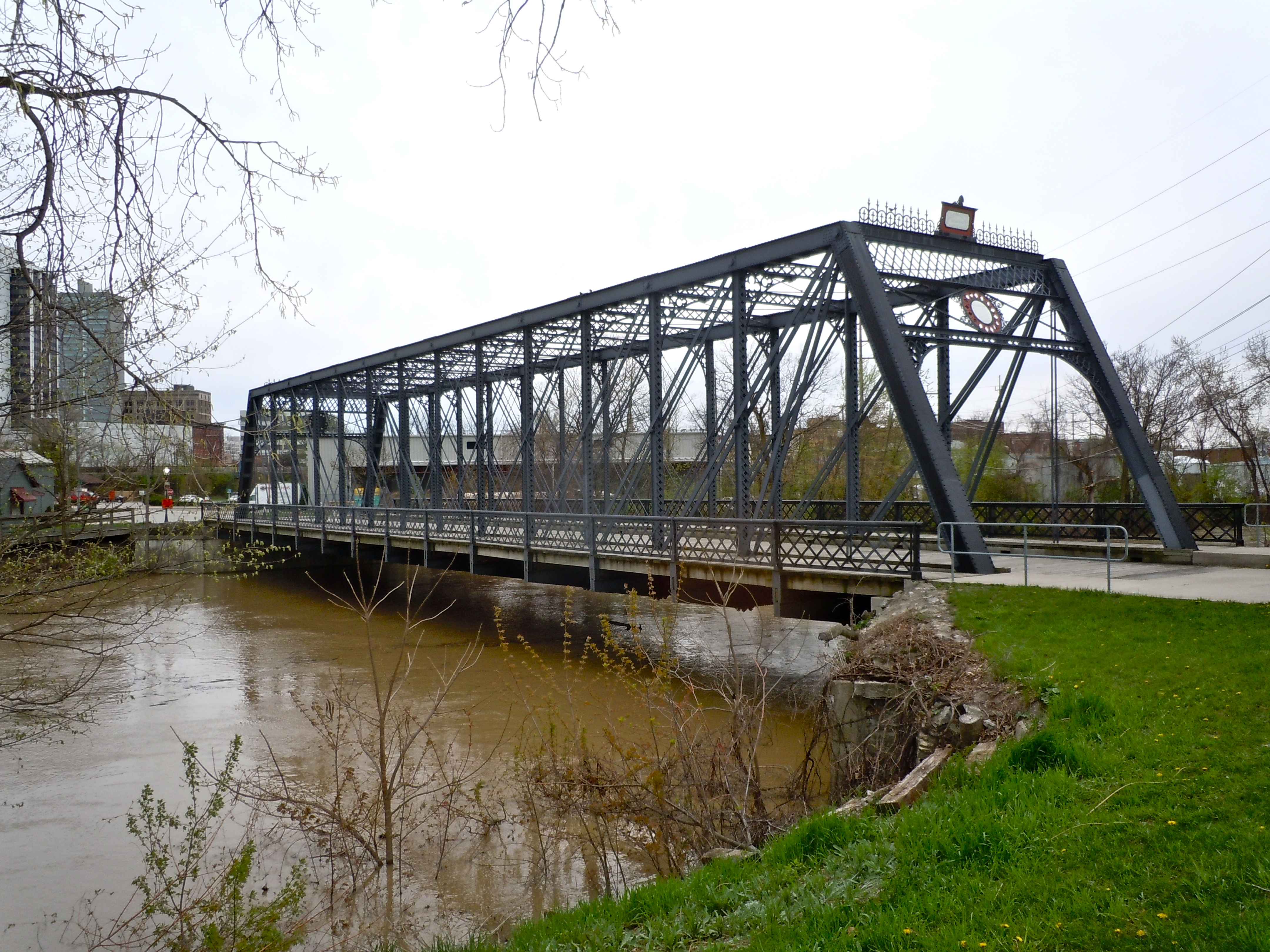 Wells Street Bridge on the NRHP since September 15, 1988. Formerly on Wells St. at the St. Marys River, Fort Wayne, Allen County, Indiana. Note that the bridge has NOT moved, but Wells Street has been rerouted about 2 blocks west. Now a pedestrian bridge.